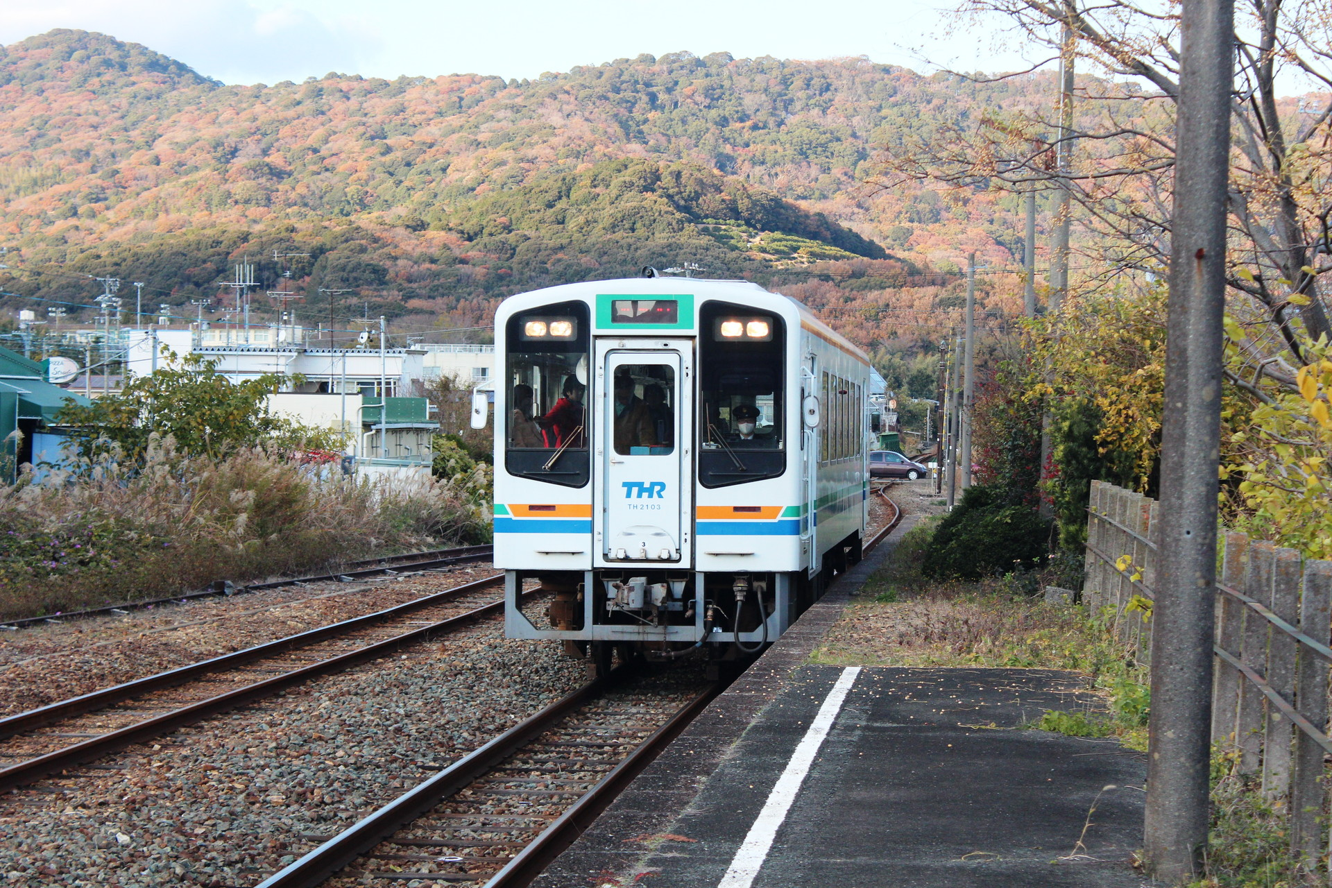 TH2103 in Chibata Station, in Kosai, Shizuoka prefecture, Japan.